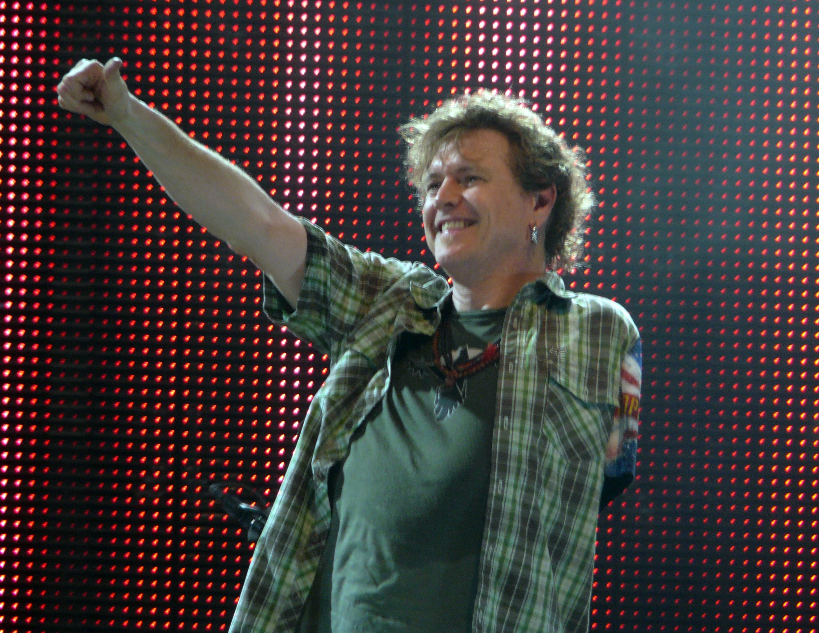 RICK ALLEN with DEF LEPPARD Live in Winnipeg, MB on August 13, 2008 Photo by Matt Becker